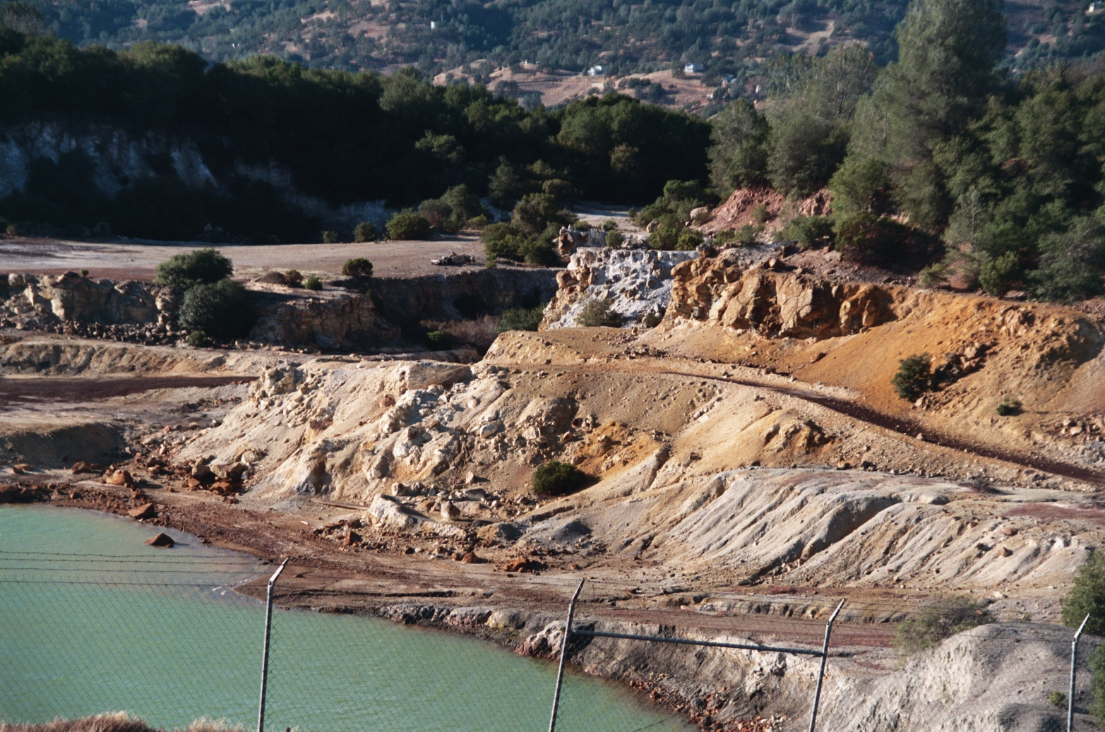 Photo of misc rock piles next to Herman pit, looking northerly.